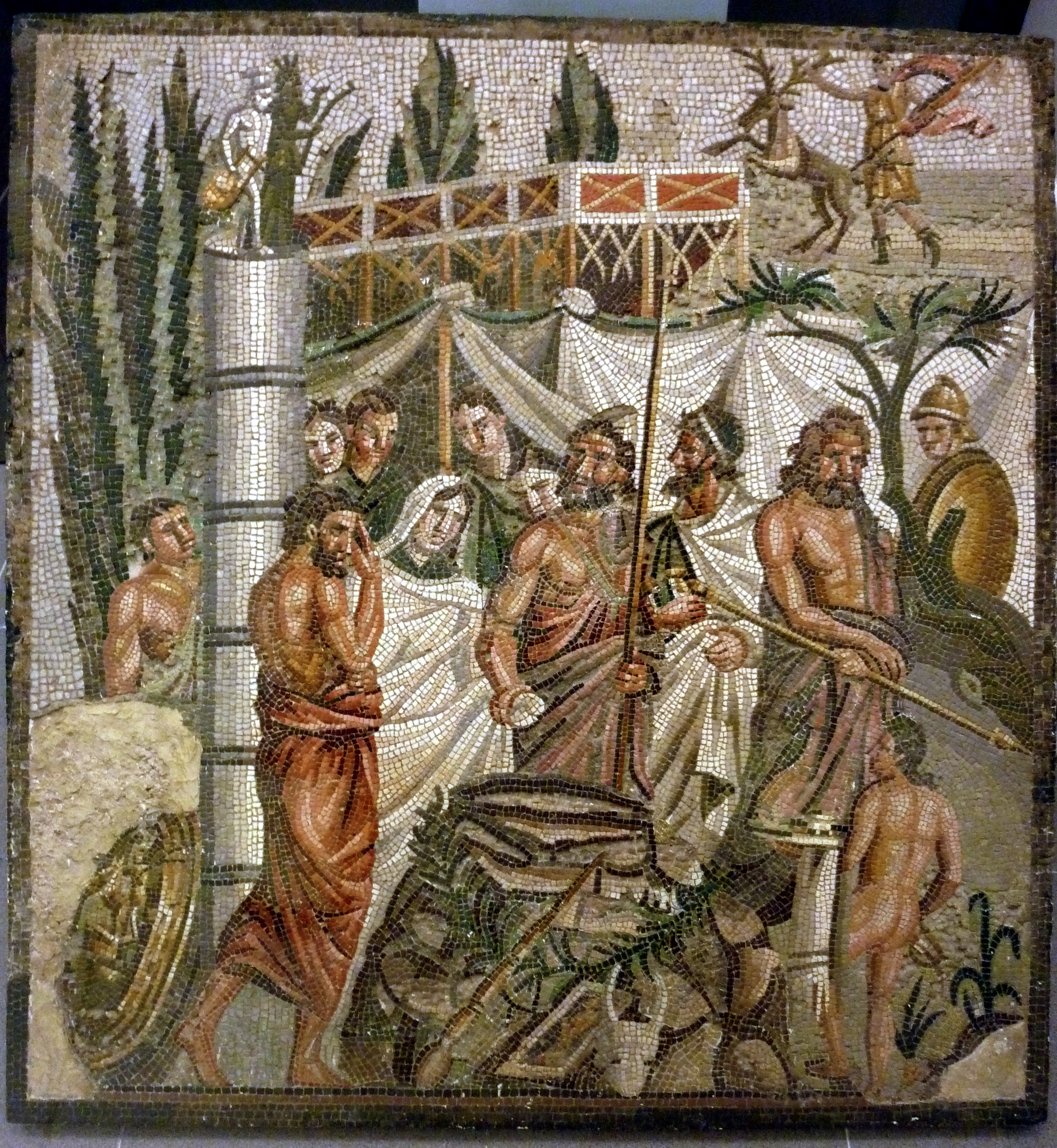 Image of Roman mosaic found in excavations in 1849 Empúries booted up in 1937. Photographed at the Museum of Empúries and digitally retouched the original user